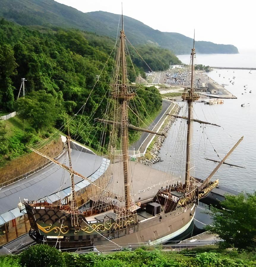 Replica of the Japanese Galleon San Juan Bautista (1613) in Ishinomaki, Japan. Comes from en, where it specifies: Photograph released in the public domain by the author.